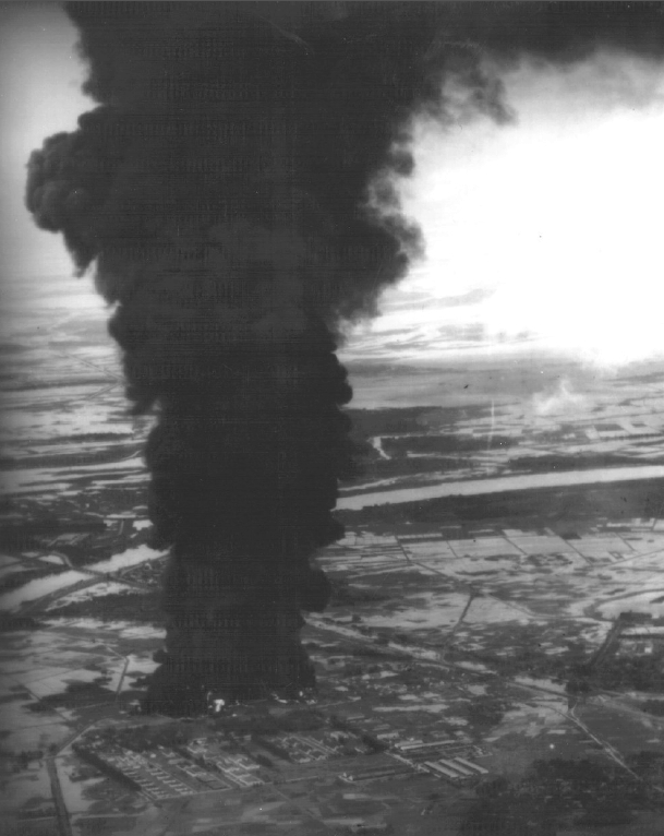 The Hanoi POL (Petrolium, Oil, and Lubricant facility) burning after it was bombed, Vietnam. the facility was attacked by the U.S. Air Force on 29 June 1966.